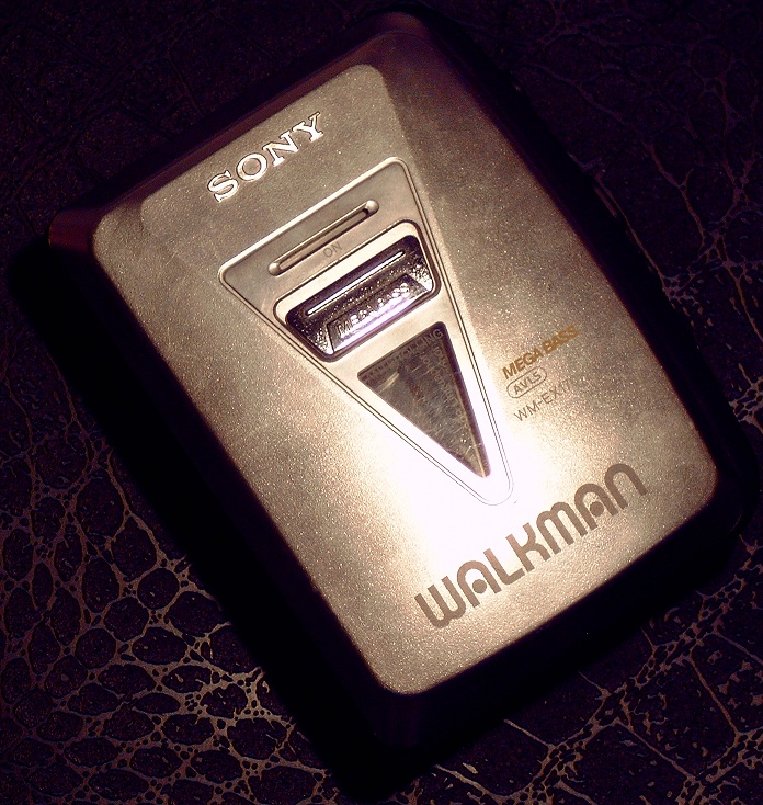 A Sony WM-EX170 Walkman from en:1998. Picture taken and released to the public domain by User:Kallemax.